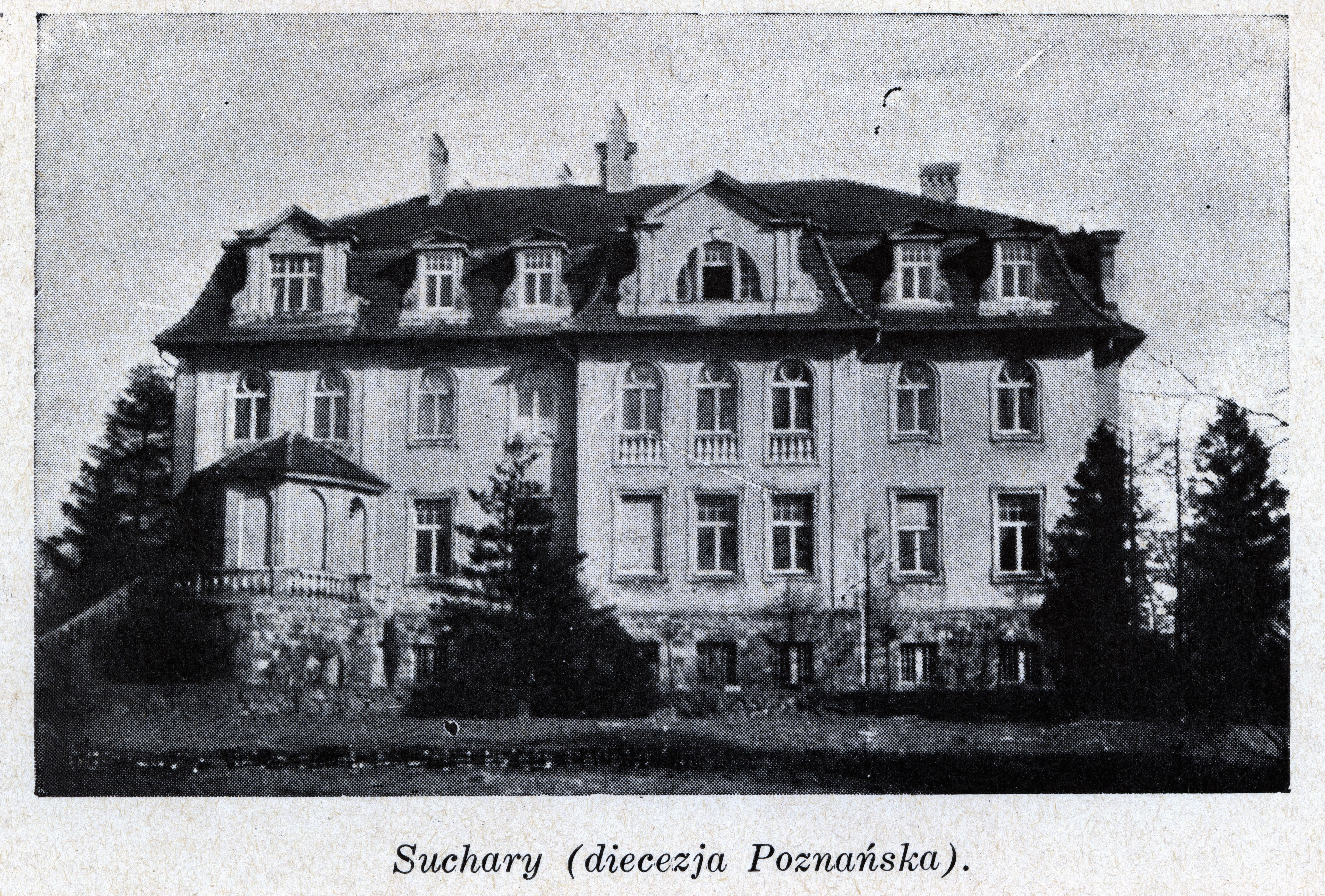 A Pallottine house in Suchary, Poland, before the II World War.